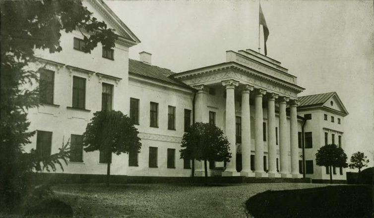 Riisipere Manor house, Estonia, year 1912